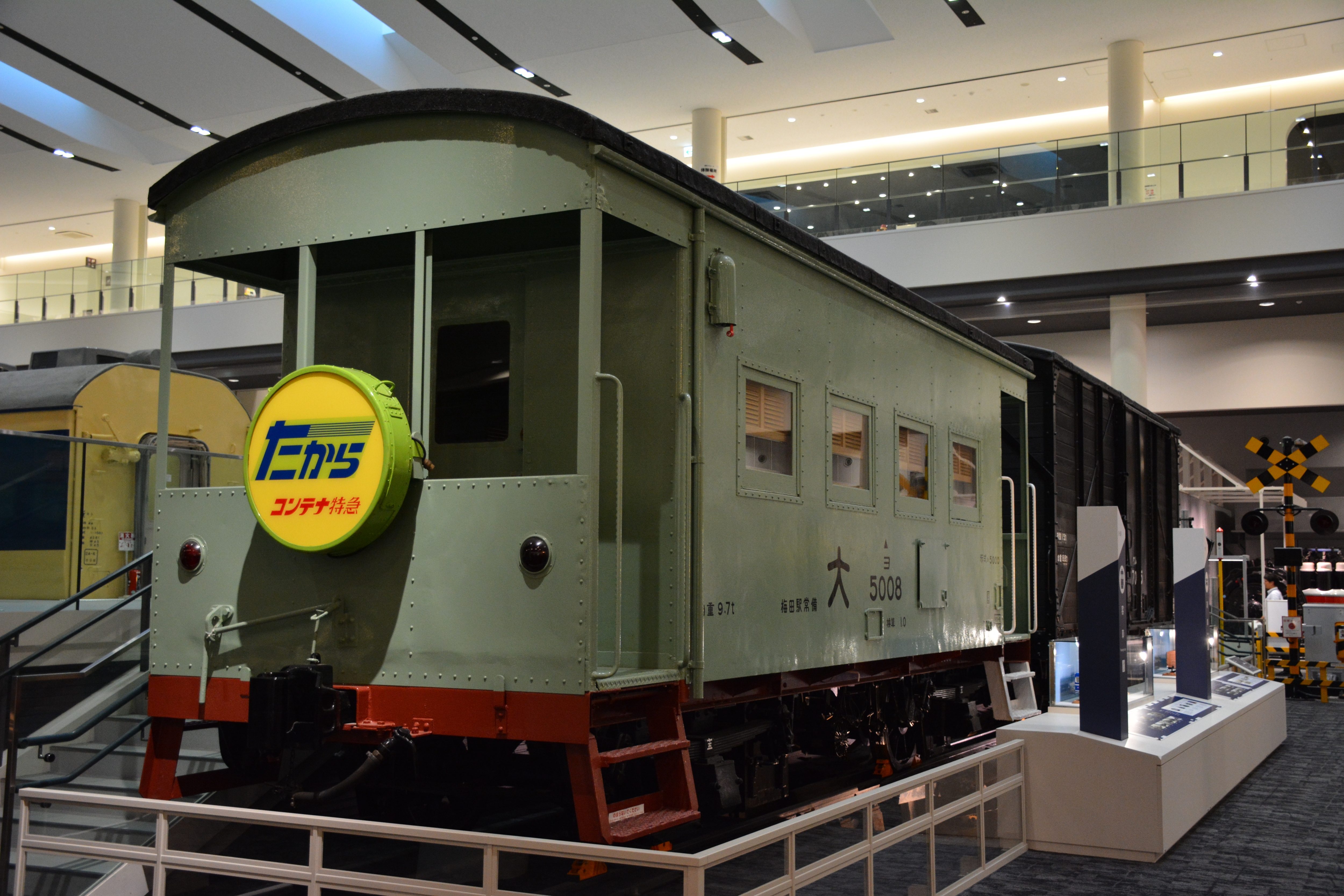 Preserved JNR Yo 5000 brake van Yo 5008 in "Takara" light green livery on display at the Kyoto Railway Museum in Japan